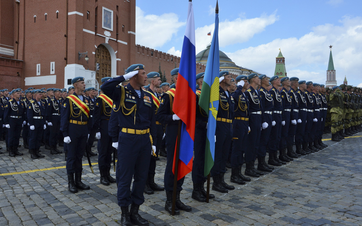 По всей стране прошли праздничные мероприятия, посвященные 90-й годовщине образования Воздушно-десантных войск